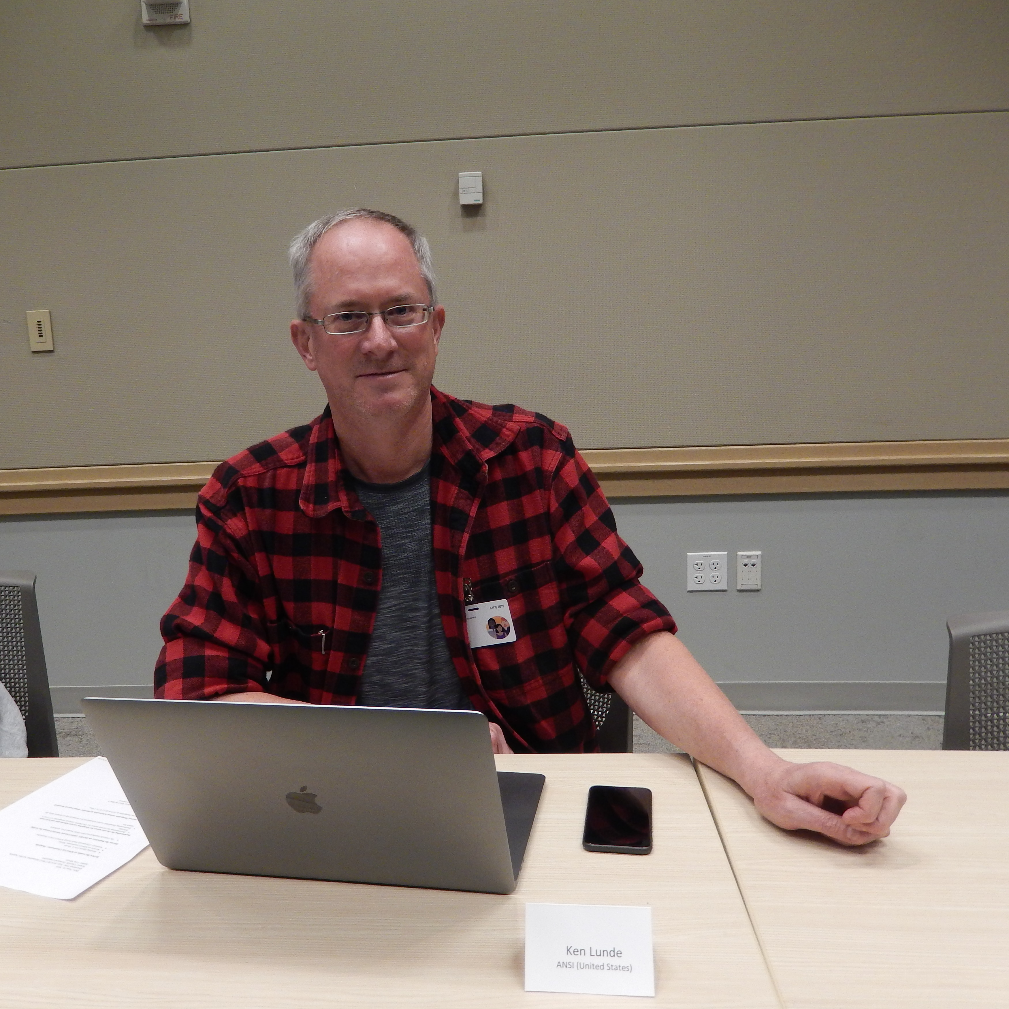 Ken Lunde at ISO/IEC JTC1/SC2/WG2 Meeting 68 hosted at Microsoft in Redmond, Washington, USA, 17-21 June 2019.